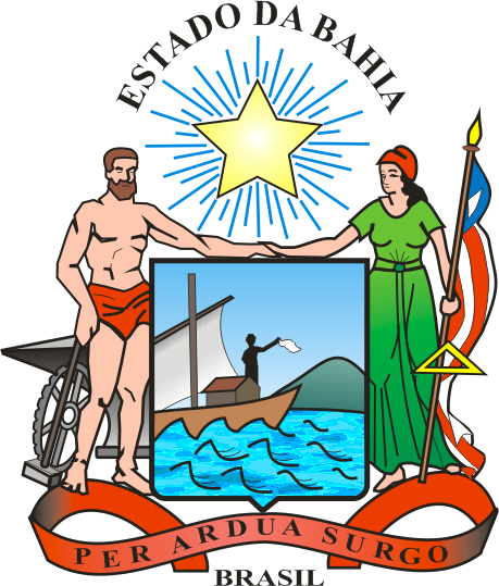 Coat of arms of Bahia.